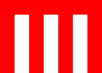 This is a banner that is used to decorate houses and stages in Japan, and elsewhere, for festival celebrations. The banner was drawn by Zach Harden (User:Zscout370) after a side trip to Little Tokyo, in Los Angeles.